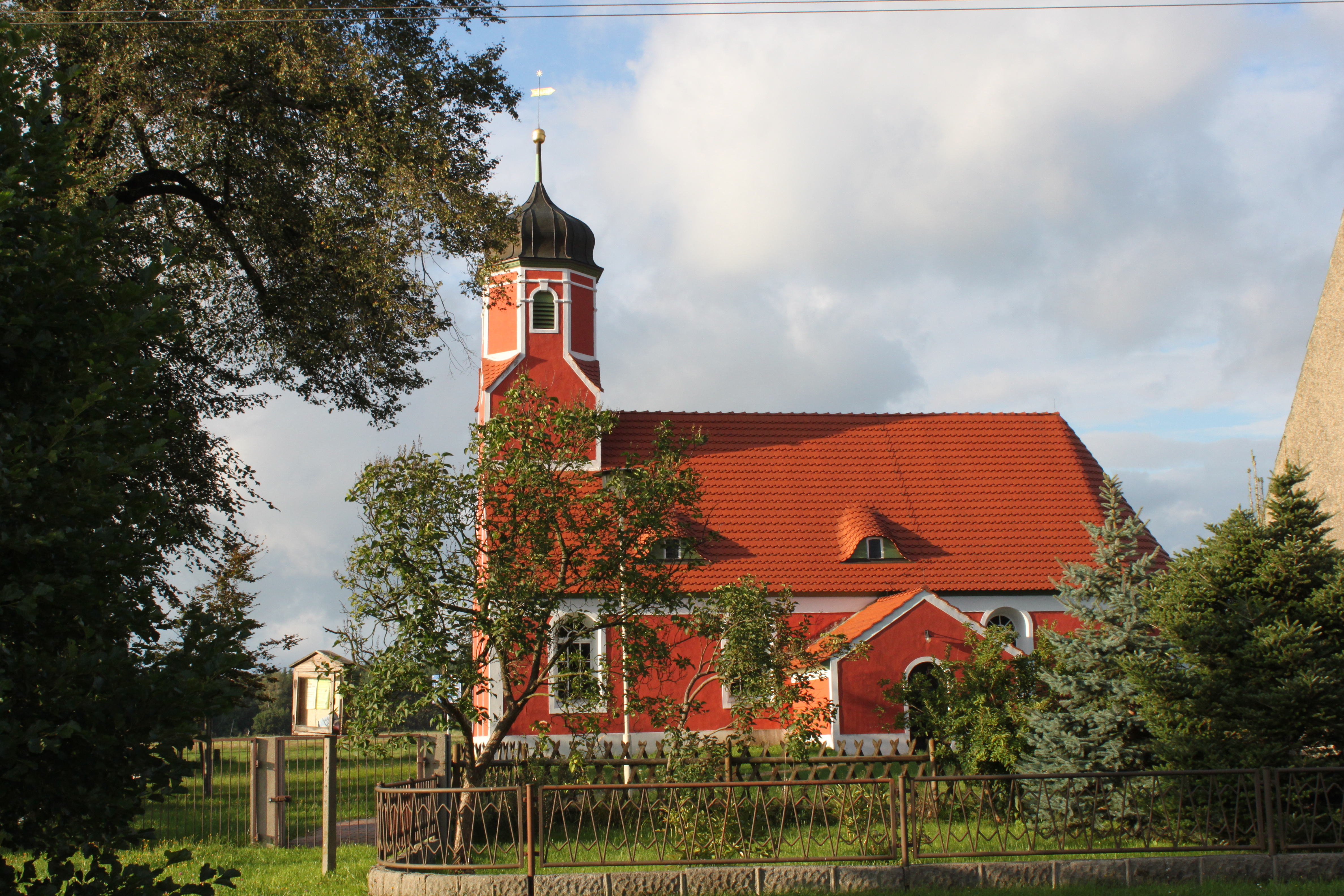 church in Rückersdorf